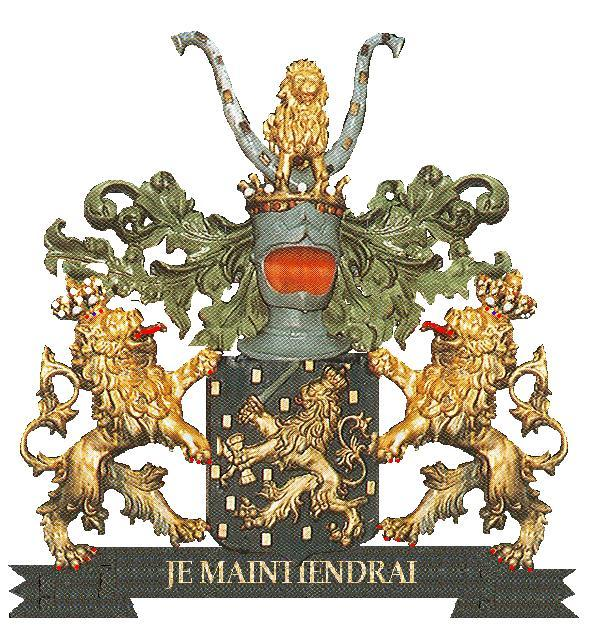 Shield from the 19th century.